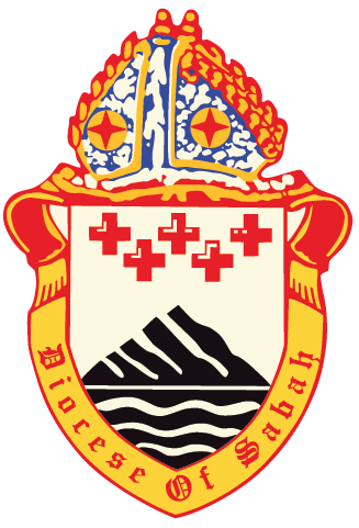 Seal of the Anglican Diocese of Sabah, part of the Province of South East Asia